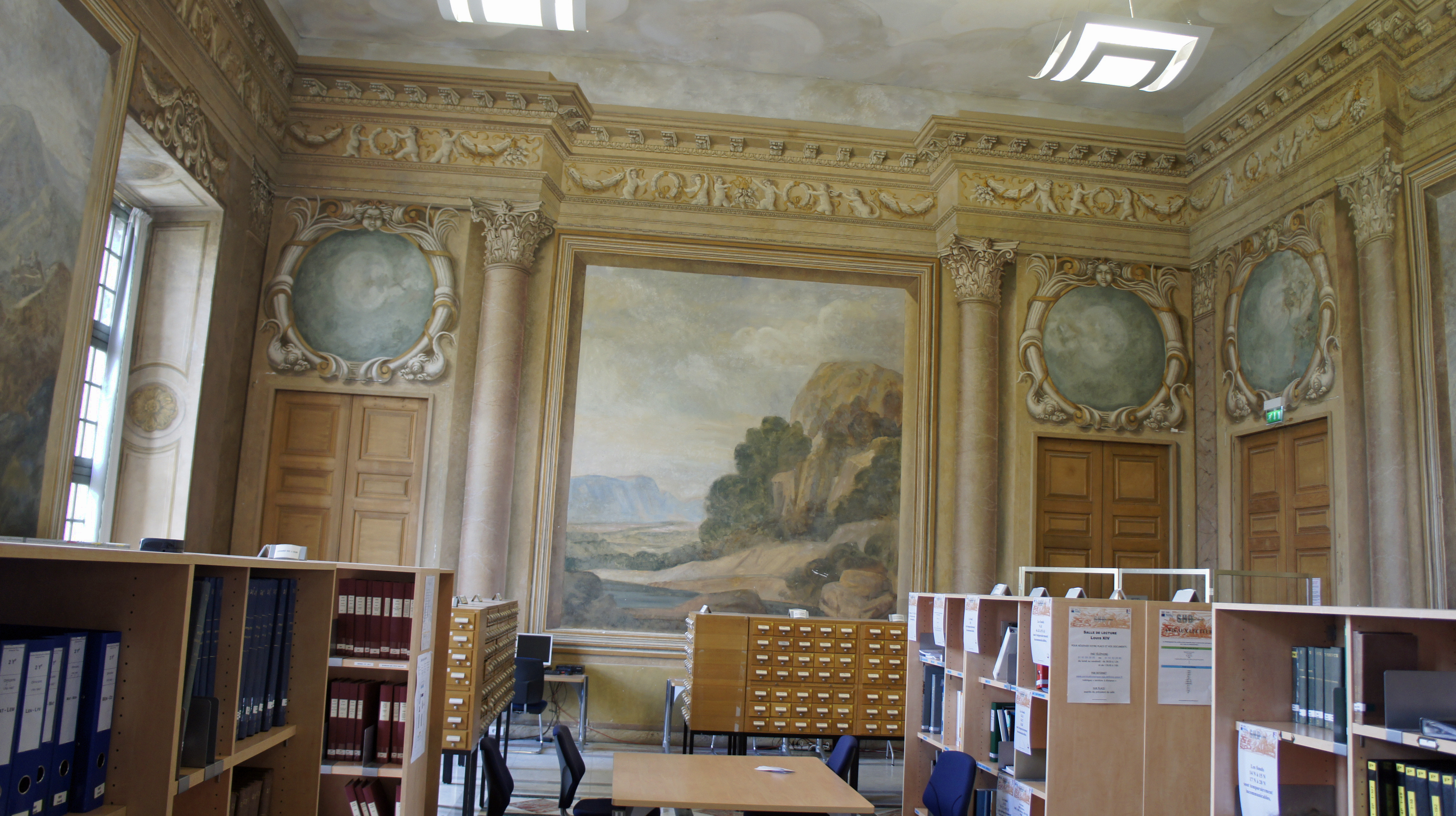 salle de lecture Louis XIV au Pavillon du roi (Château de Vincennes).